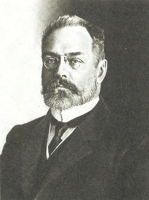 Image of Alexander Guchkov (1862 - 1936), Russian politician